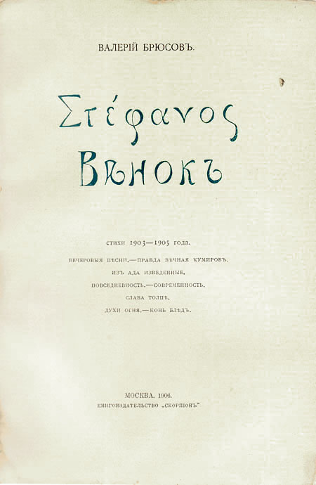 "Stephanos", the title-page Valery Bryusov's book